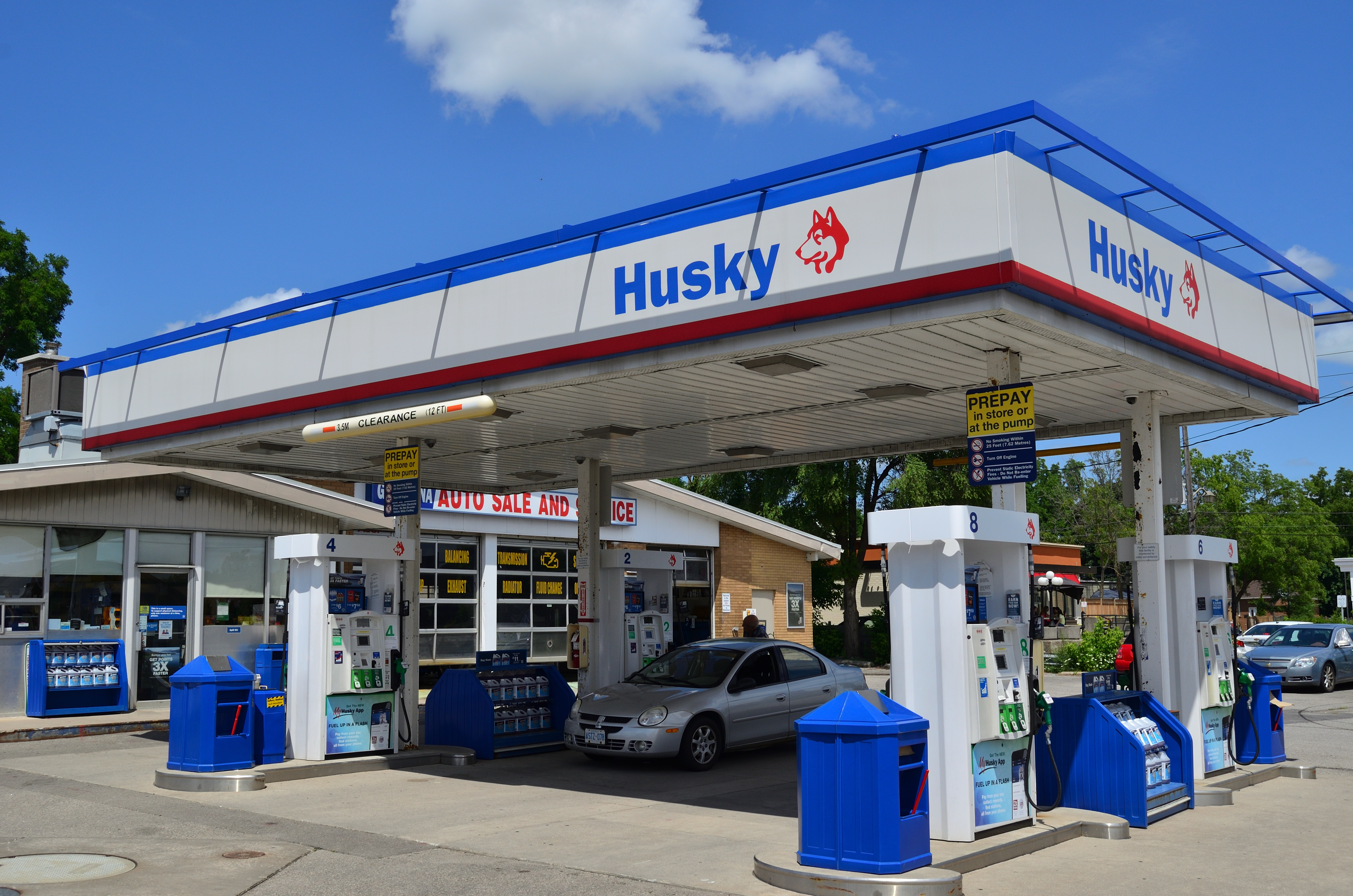 Husky Gas Station - Address: 5 Main St N, Markham, ON L3P 1X3